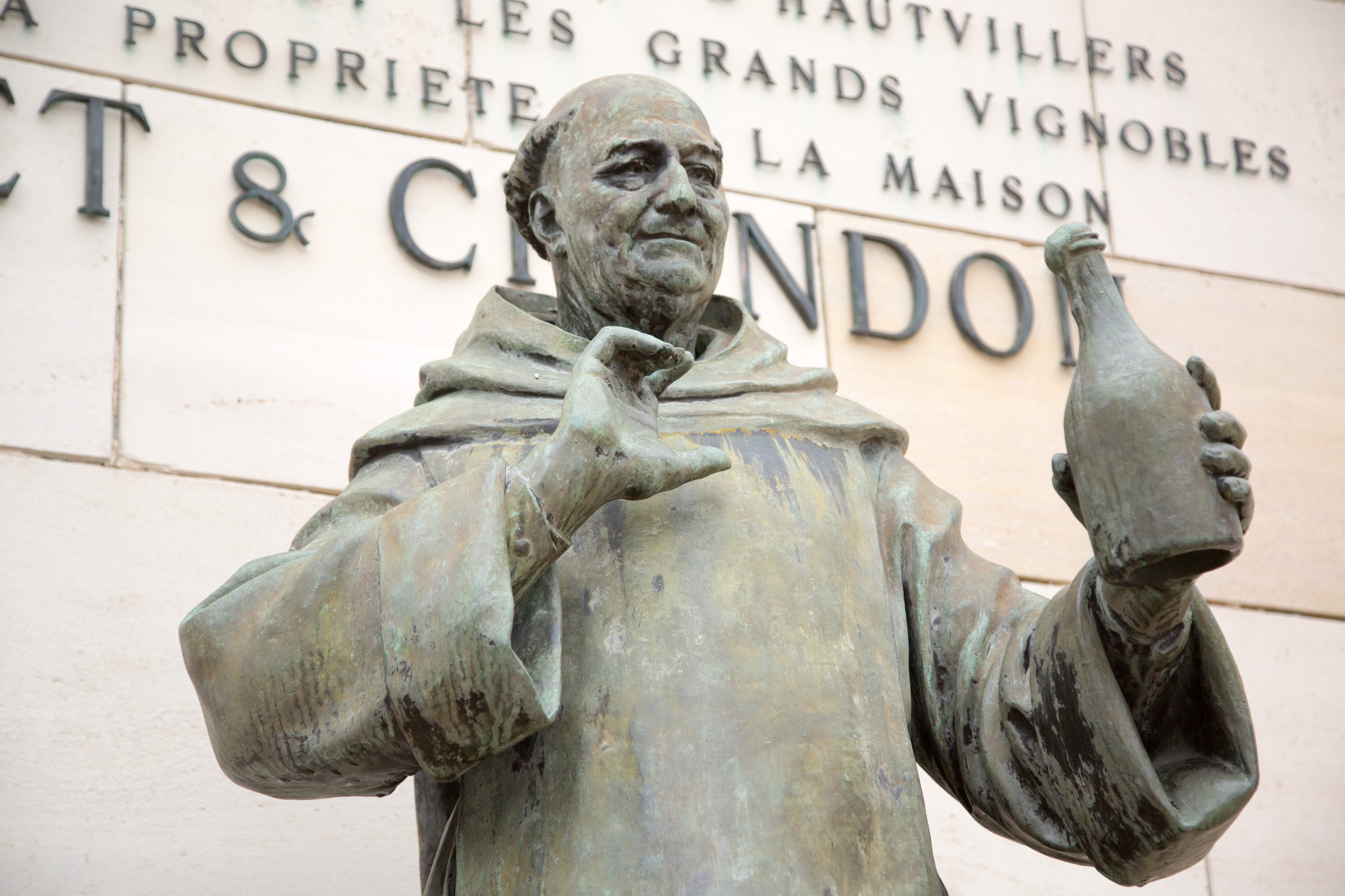 Moët & Chandon caves